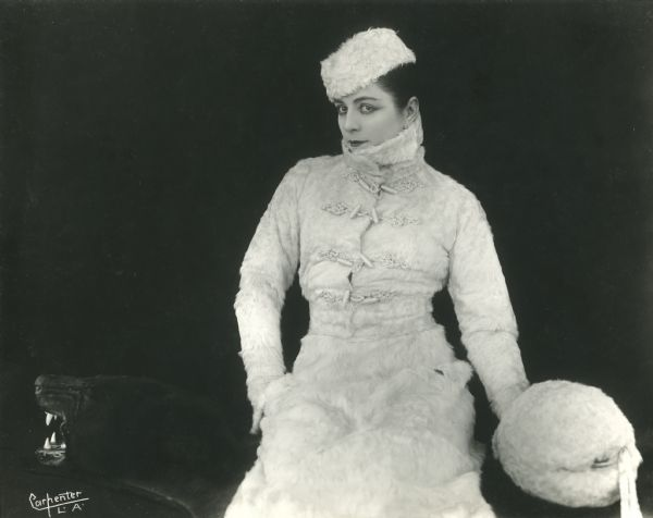 Publicity photograph by Gerald Carpenter of Los Angeles, c. 1916. Three-quarter length portrait of Valeska Suratt wearing a white fur suit, hat, and muffler as she sits atop a black bear rug.